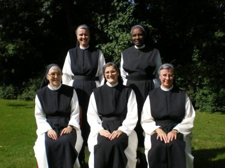 Prioress General and the General Council of Bernardine Cistercians of Esquermes